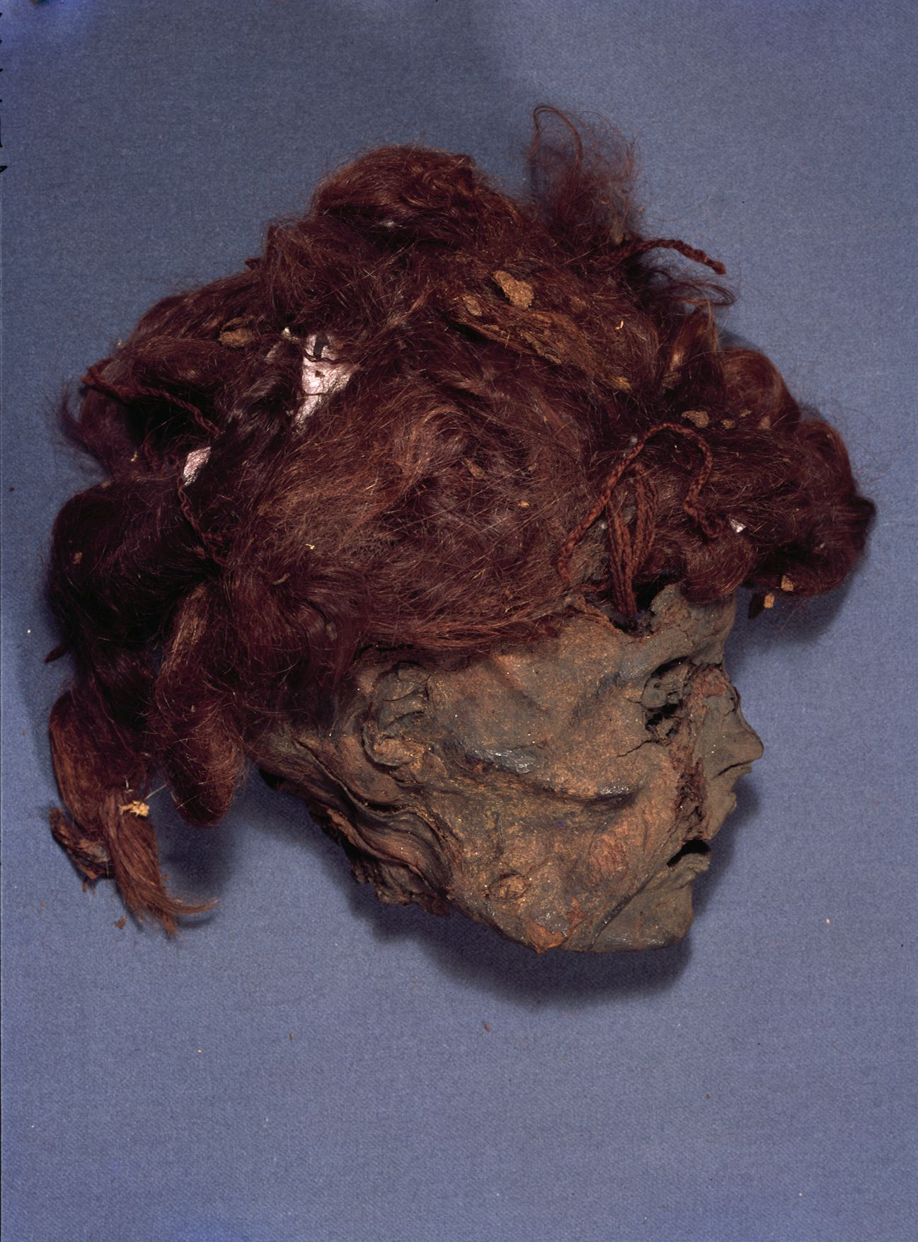 Head of the bog body Stidtsholt Woman.